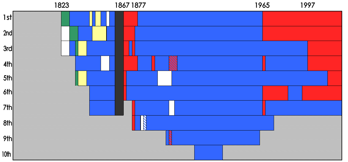 A diagrammatic expression of congressional holding in Alabama